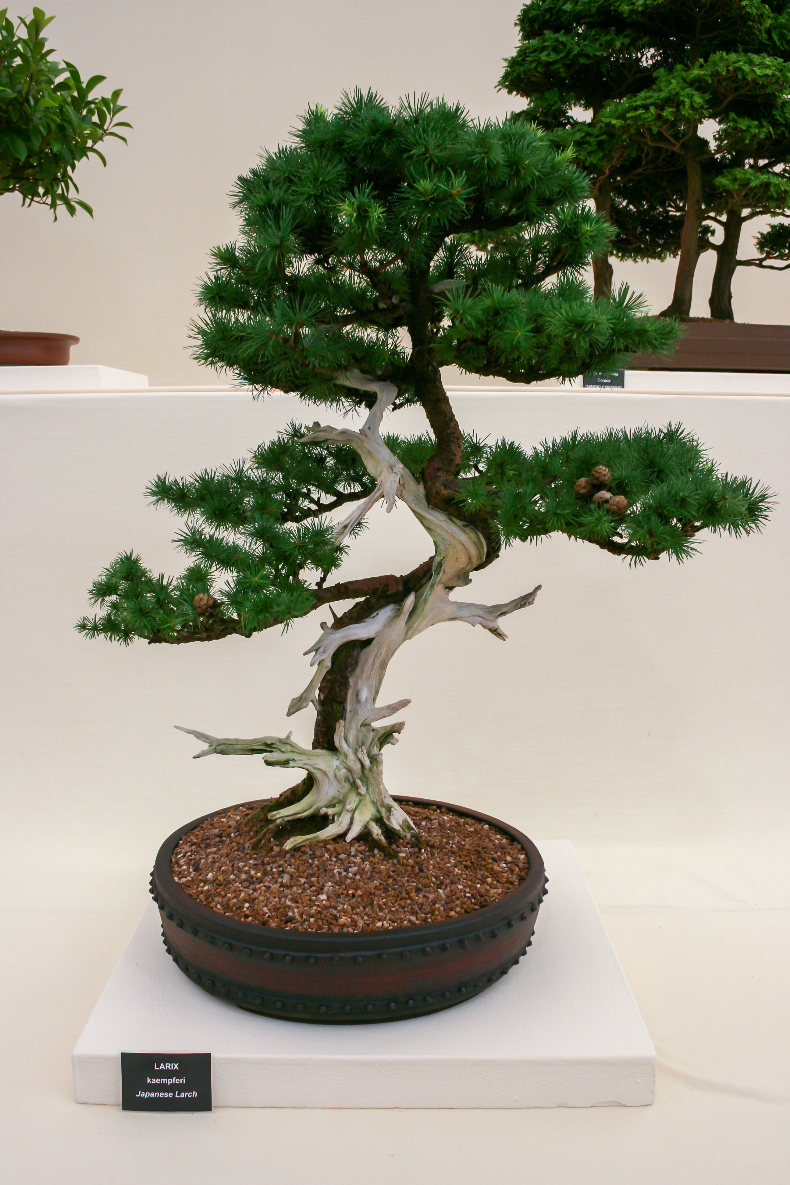 Bonsai of a Japanese larch, Larix kaempferi. Photographed at Tatton Park Flower Show 2008